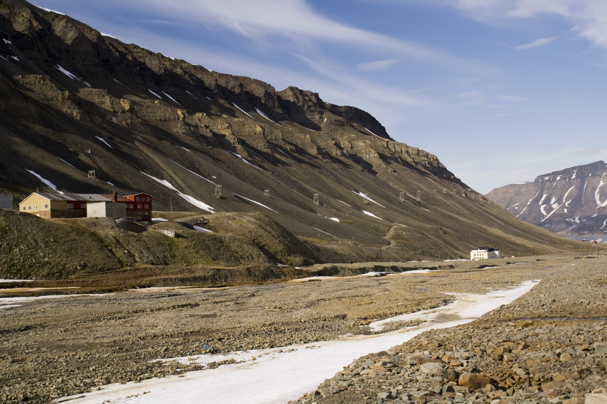 Longyeardalen